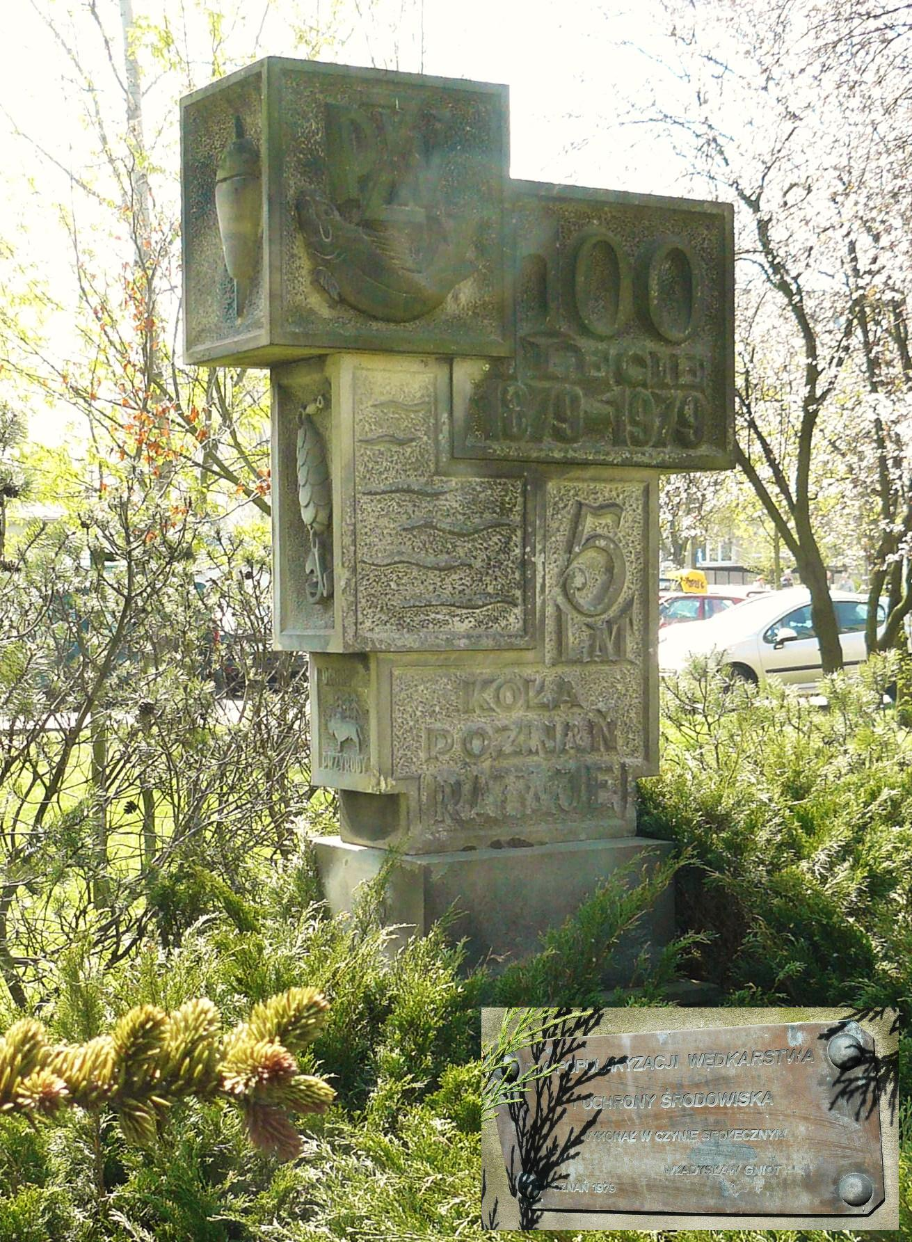 Fishing Monument, Poznan, Pilsudskiego Street.